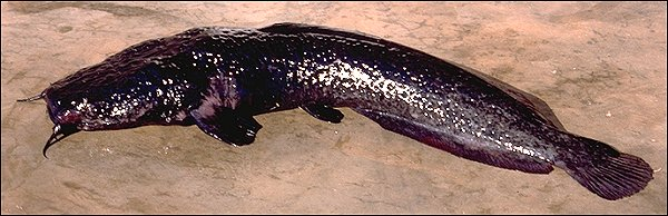 Bathyclarias foveolatus Jackson, a clariid catfish species endemic to Lake Malawi, Africa.